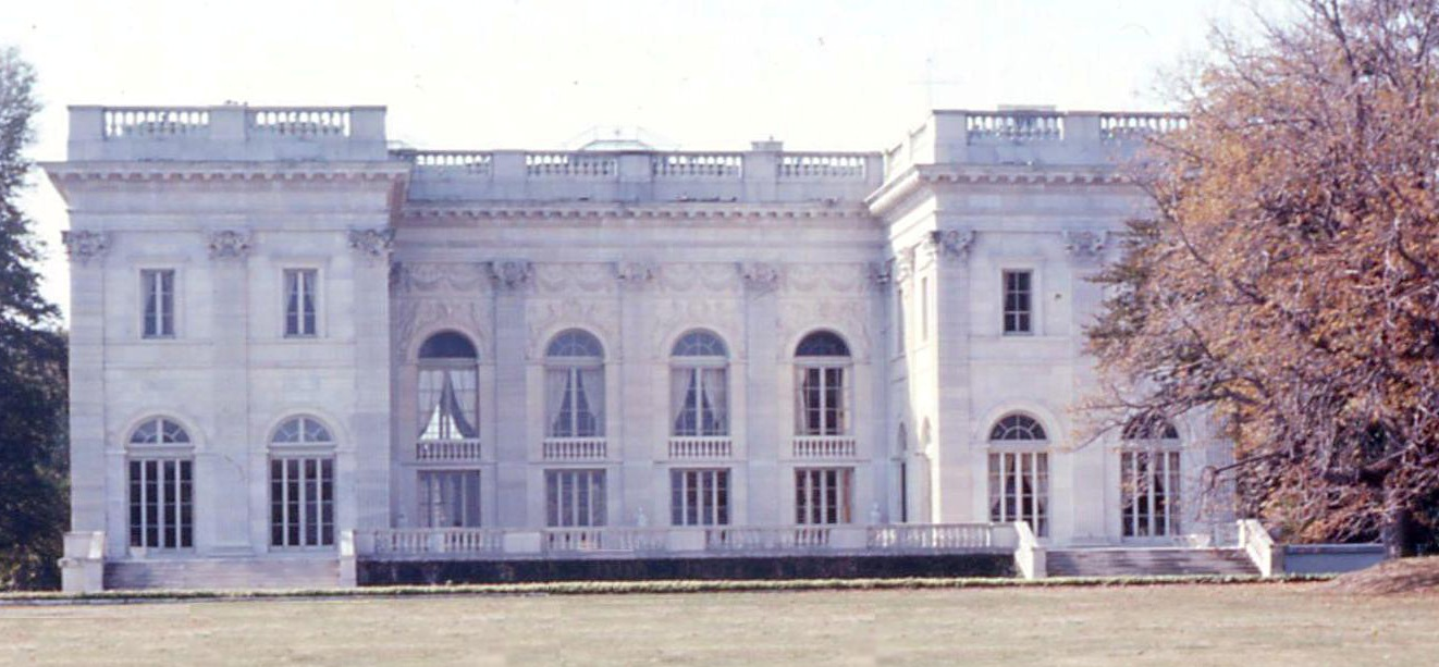 Rear view of Marble House, a mansion in Newport, Rhode Island, facing sea.